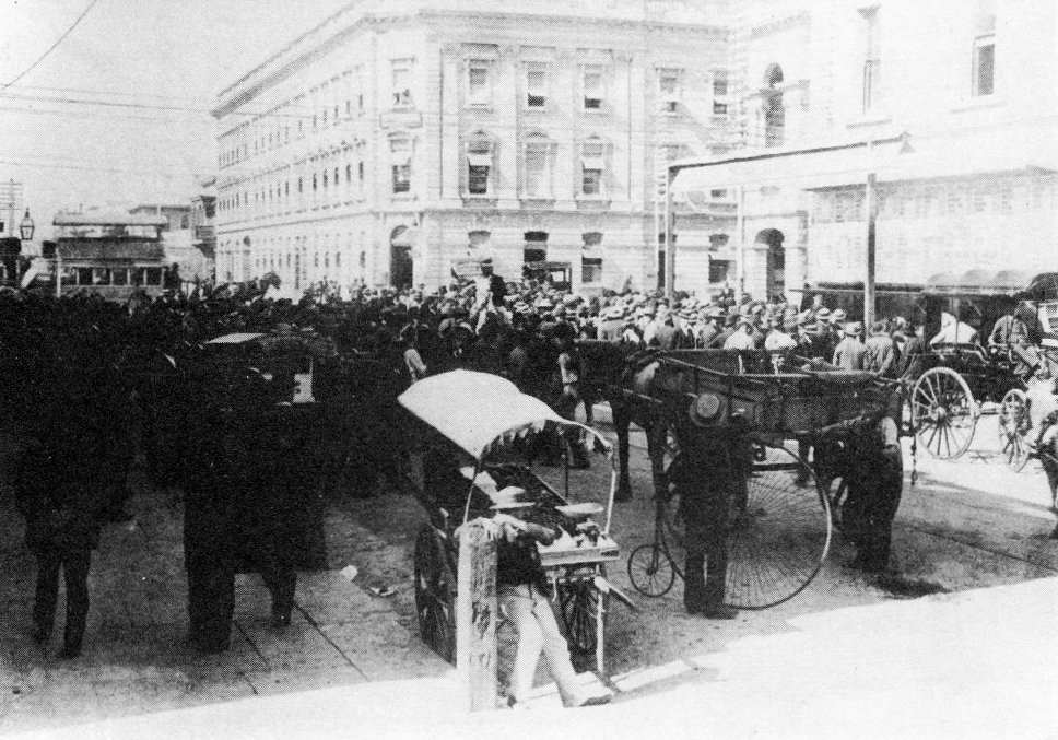 1896 election day crowd outside the offices of The Advertiser on Waymouth Street in Adelaide. The election results are posted on boards on the wall to the right.